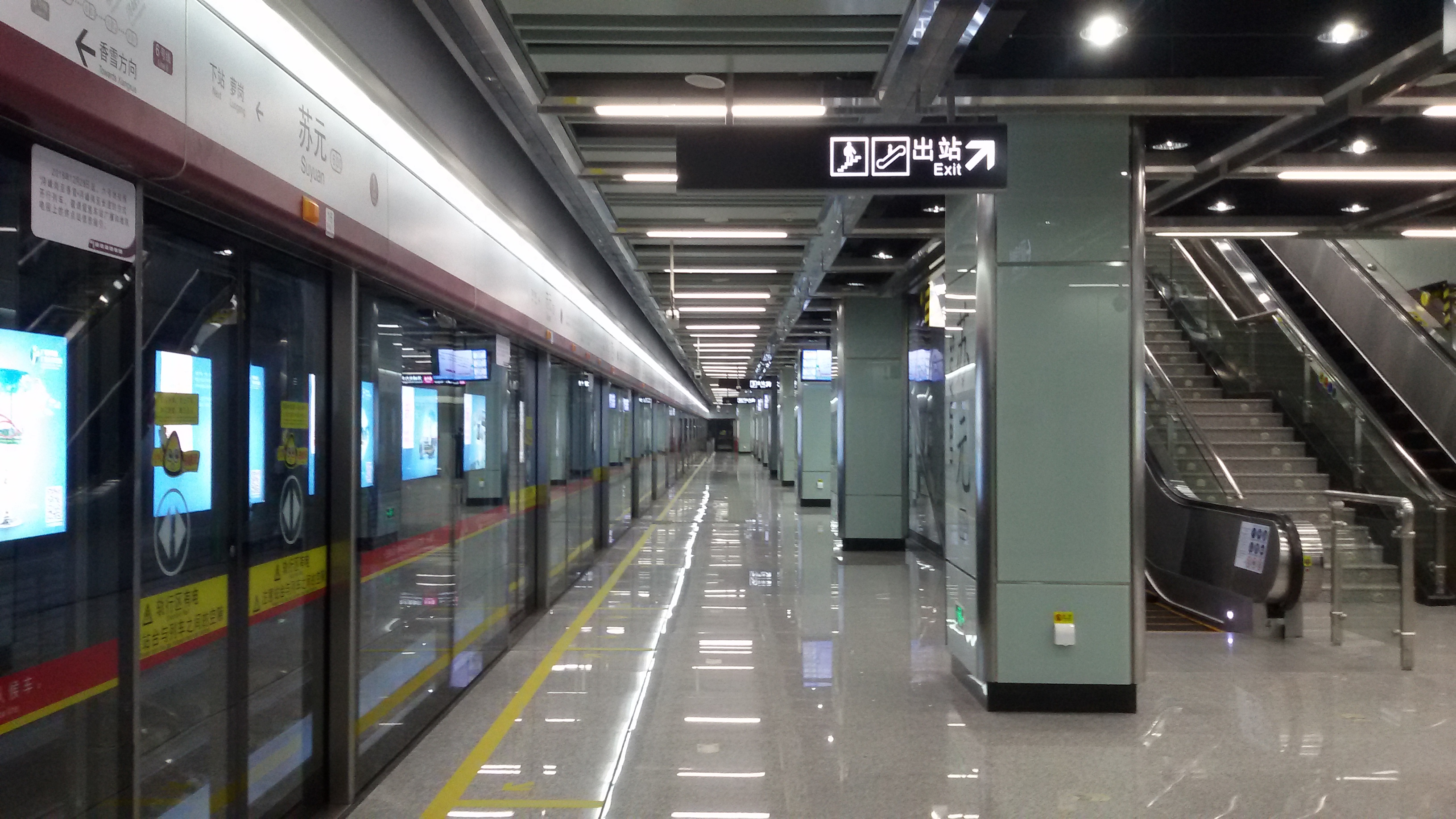 Station Platform for Suyuan Station in Guangzhou Metro.